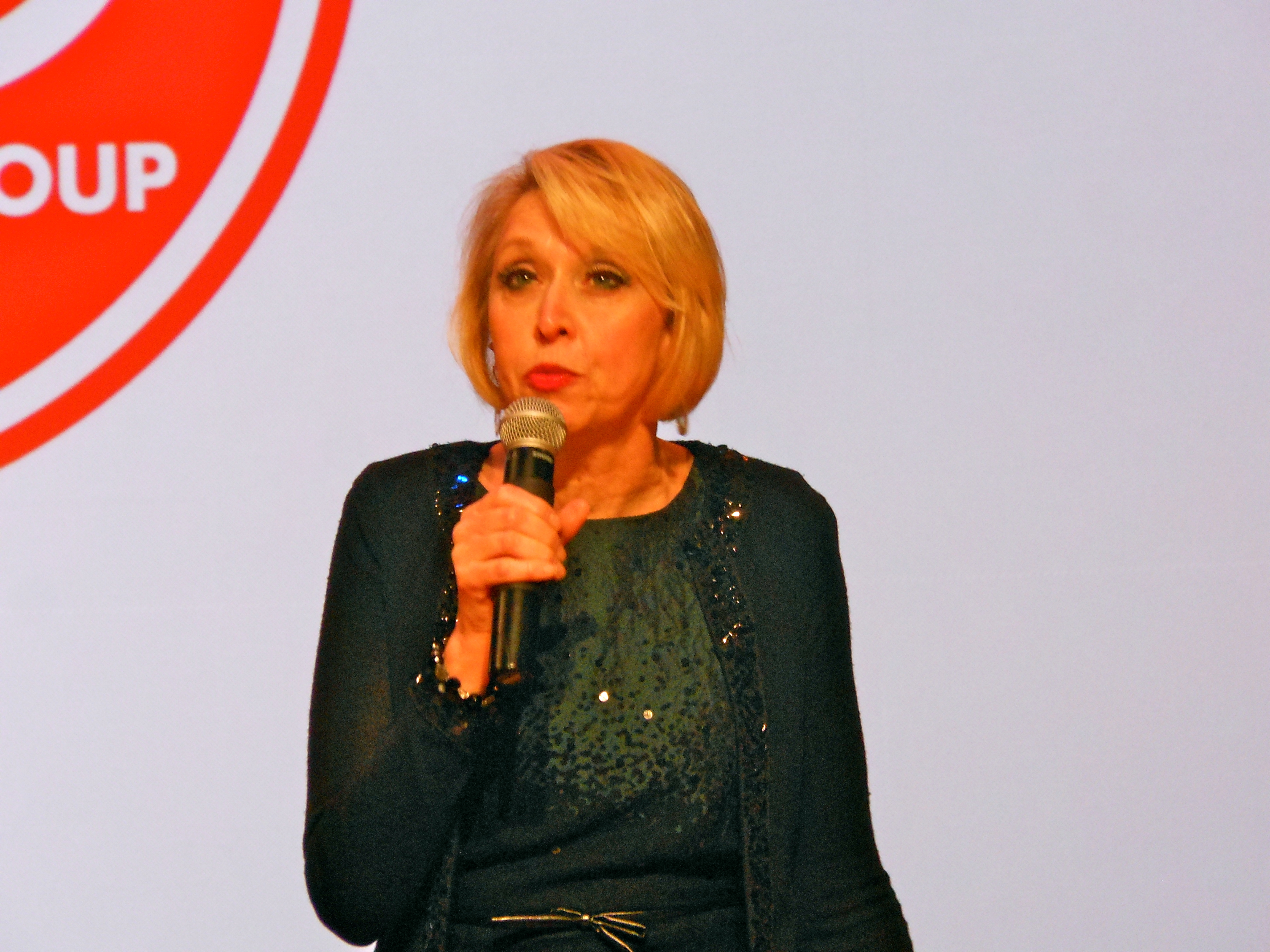 American actress and comedian Julie Halston at the 'Gimme A Break'. Transport Group Gala. The Asia Society. NYC. December 5th, 2011.